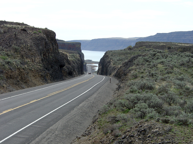 Example of a road cut along WA Highway 155 near Banks Lake.